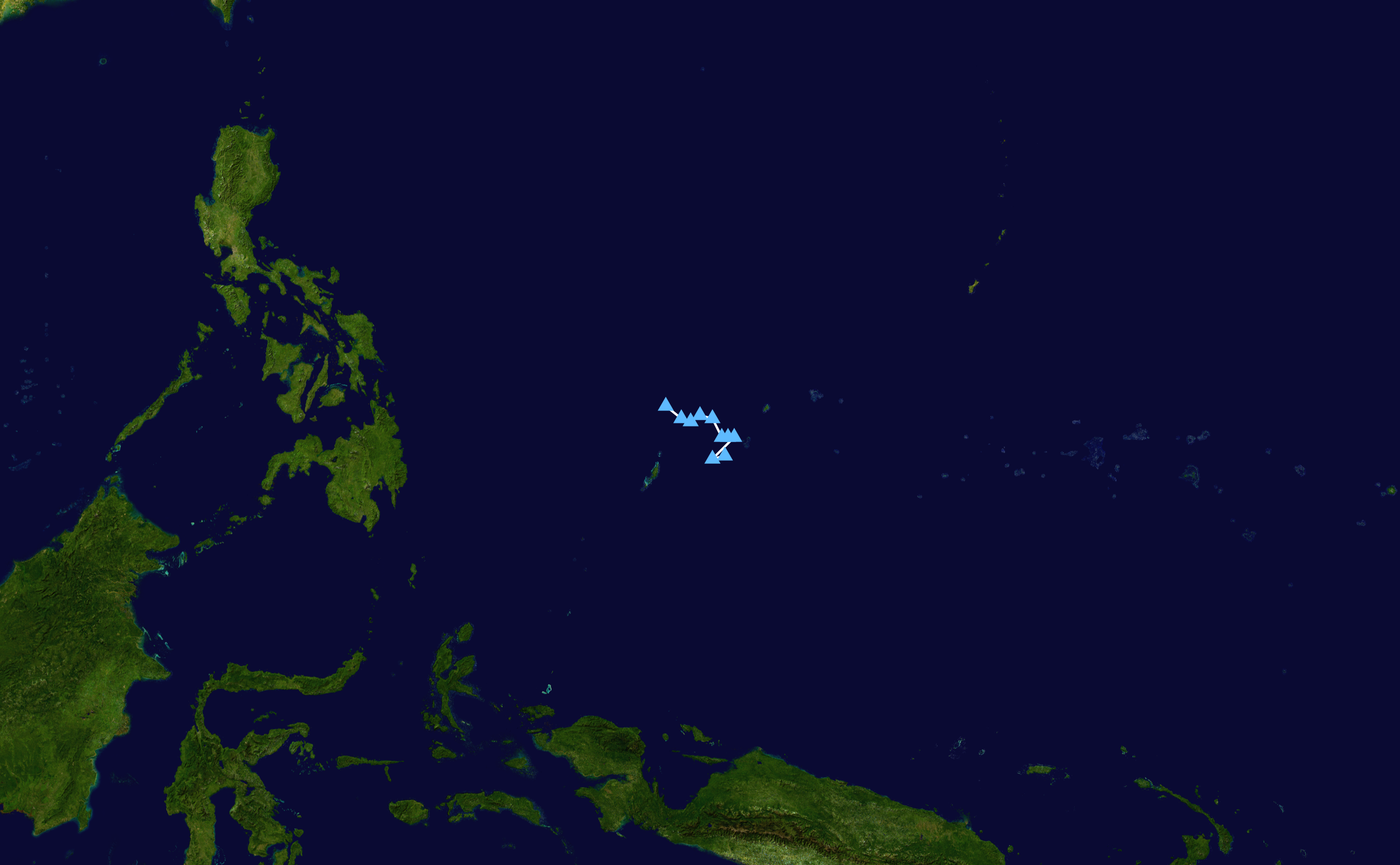 Track map of the 5th tropical depression of the 2019 Pacific typhoon season. The points show the location of the storm at 6-hour intervals. The colour represents the storm's maximum sustained wind speeds as classified in the Saffir–Simpson scale (see below), and the shape of the data points represent the nature of the storm, according to the legend below. Saffir–Simpson scale Tropical depression≤38 mph≤62 km/h Category 3111–129 mph178–208 km/h Tropical storm39–73 mph63–118 km/h Category 4130–156 mph209–251 km/h Category 174–95 mph119–153 km/h Category 5≥157 mph≥252 km/h Category 296–110 mph154–177 km/h Unknown Storm type Tropical cyclone Subtropical cyclone Extratropical cyclone / Remnant low / Tropical disturbance